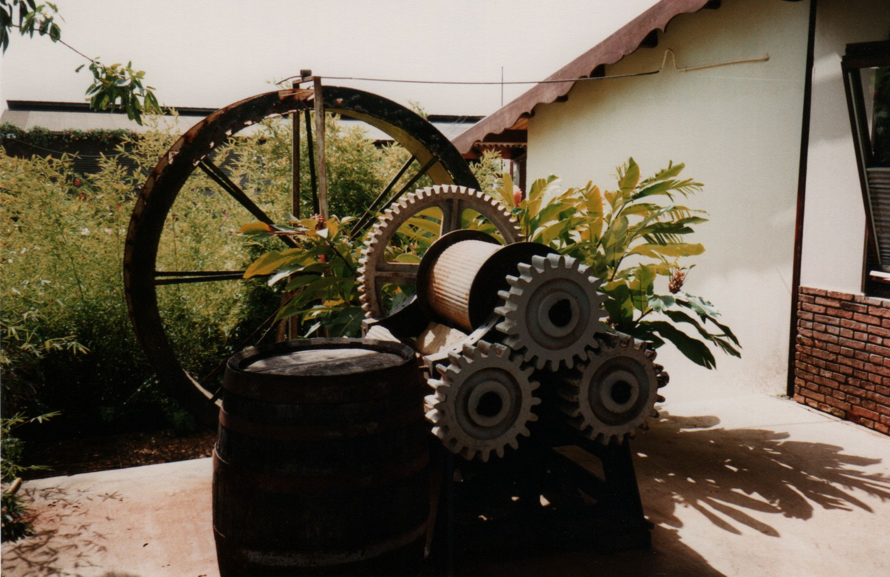 Sugar cane crusher with bladed rollers at the rum museum in Sainte Rose Guadeloupe (France).